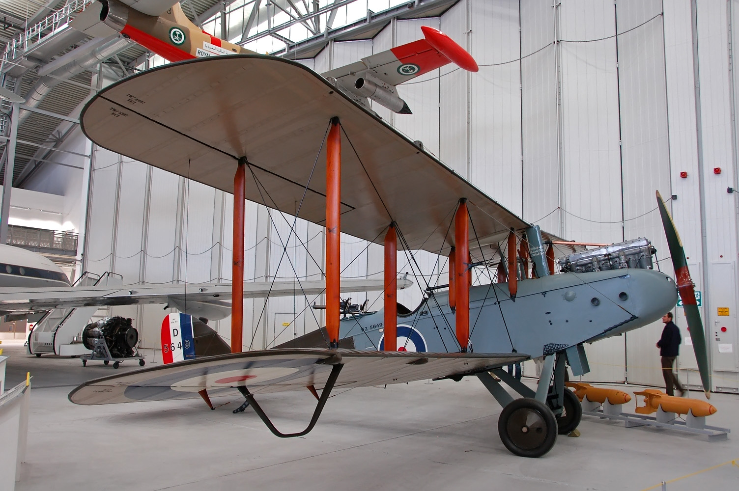 A de Havilland (Airco) DH.9 at the Imperial War Museum, Duxford, photographed by Robin Stevens on 26 May 2007.